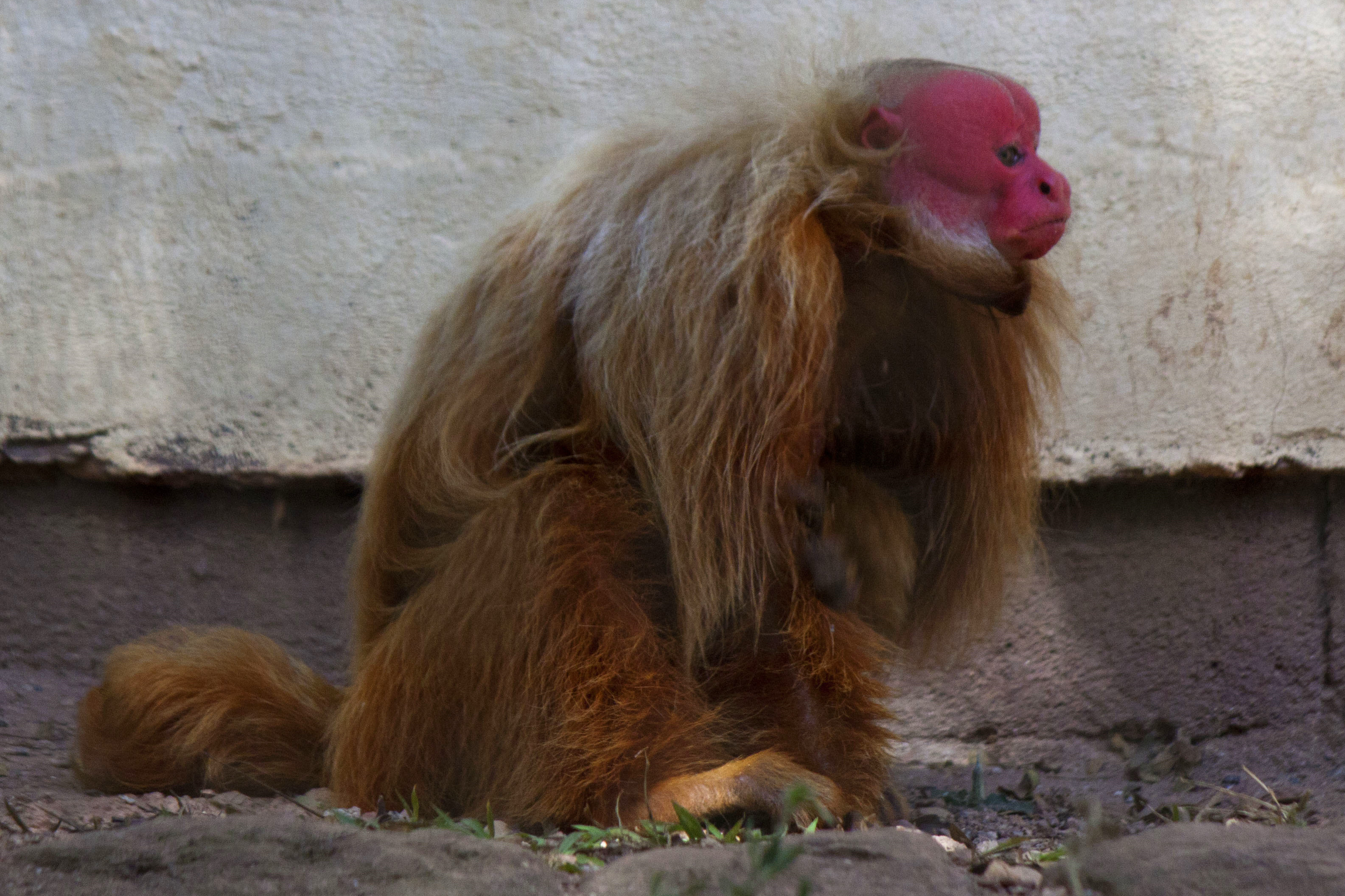 Red uakari (Cacajao calvus novaesi) in Itatiba Zoo, Brazil.